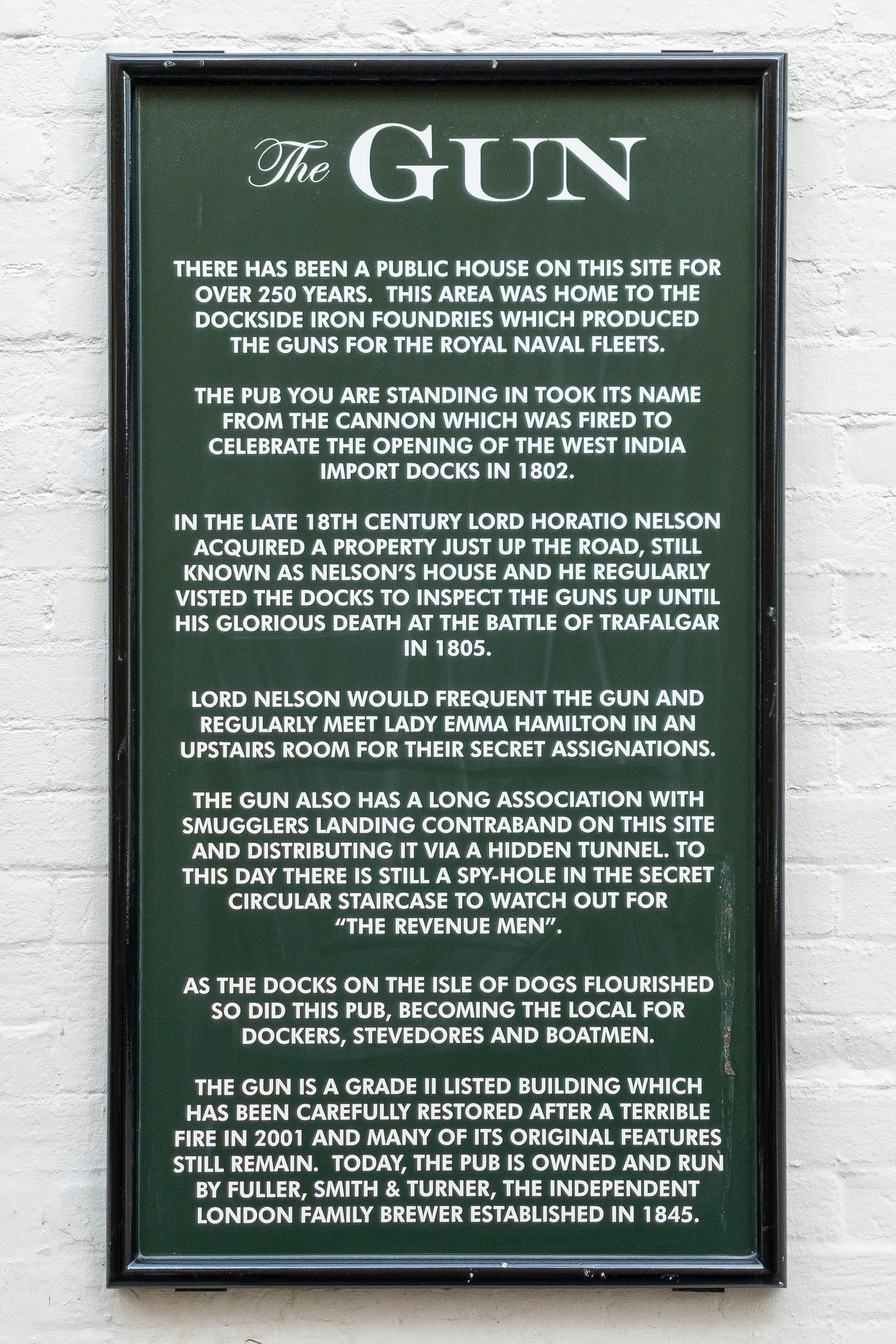 Wooden plaque outside The Gun, a public house and Grade II listed building in Coldharbour, London.